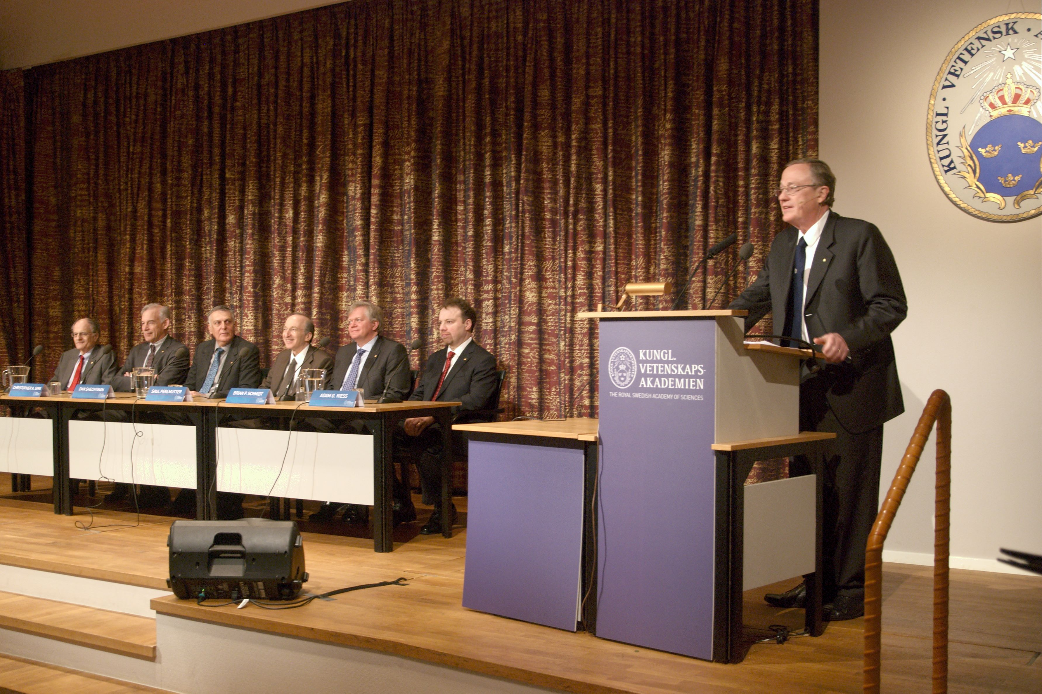 Nobel Prize 2011, press conference with the laureates of the Nobel prizes in chemistry and physics and the memorial prize in economic sciences at the Royal Swedish Academy of Sciences.